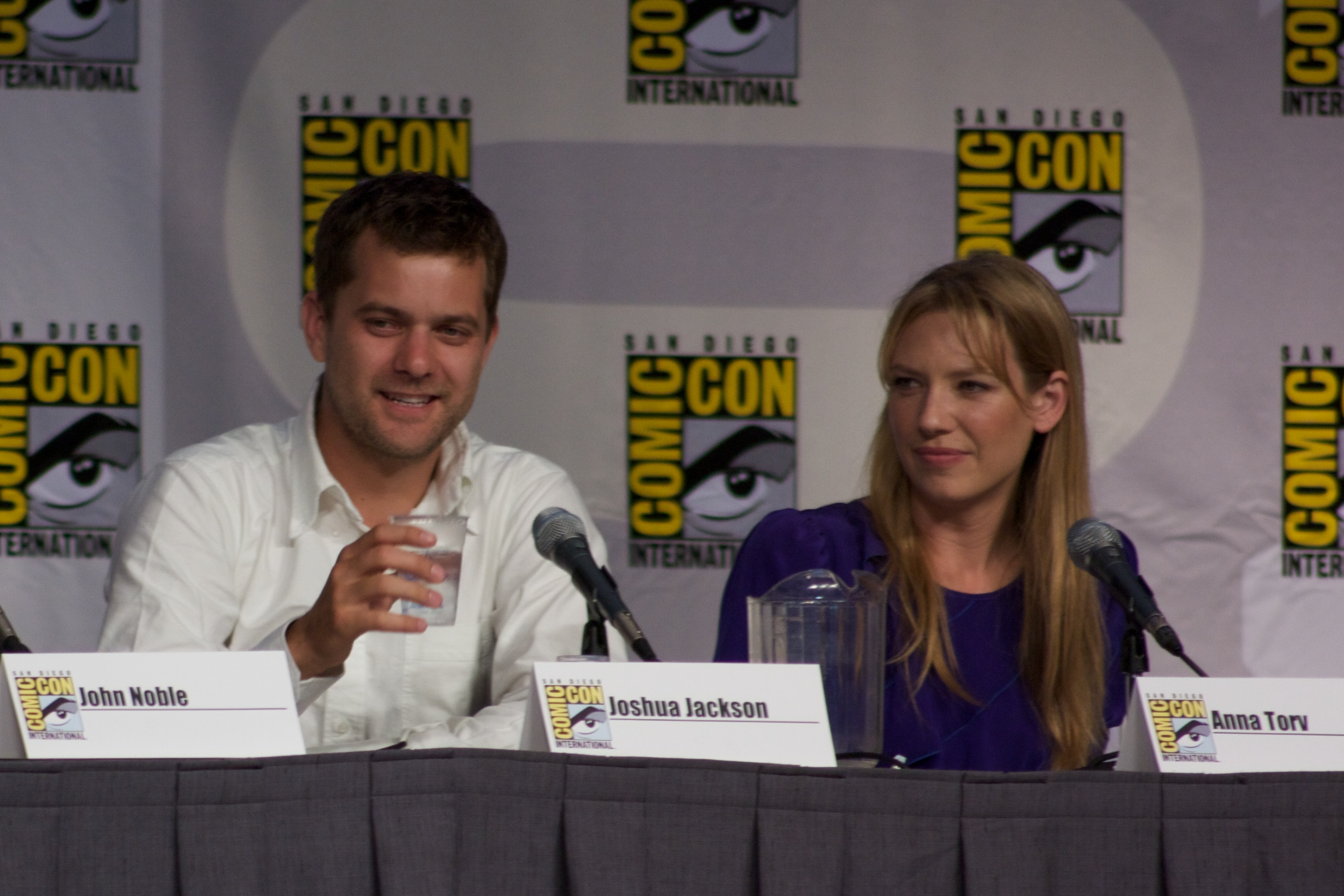 "Fringe" Panel. Actors Joshua Jackson and Anna Torv at San Diego 2010 Comic-Con International.